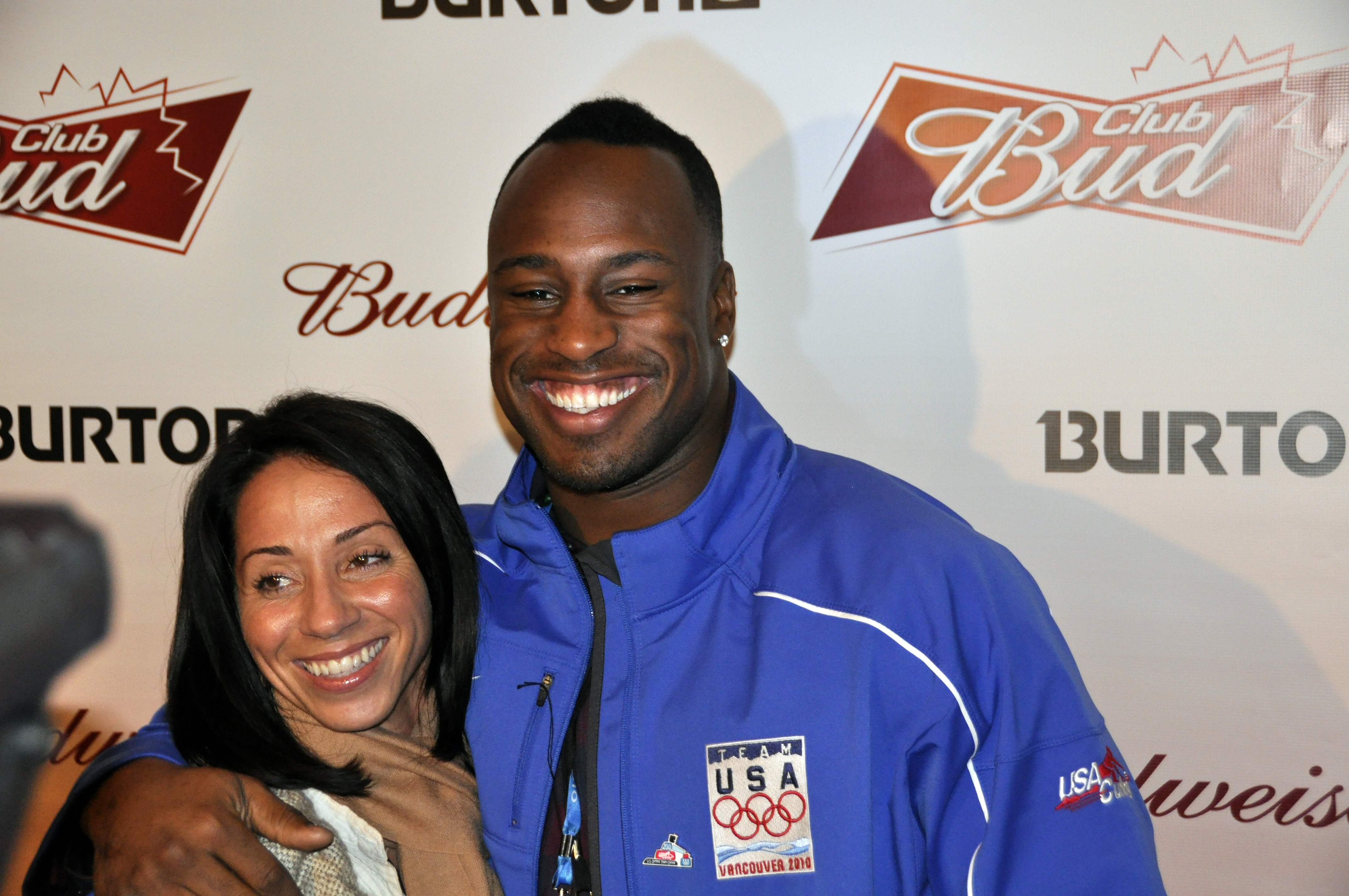 Vernon Davis at the Club Bud private Burton party This photo from blog. You can also follow her on Twitter at ...